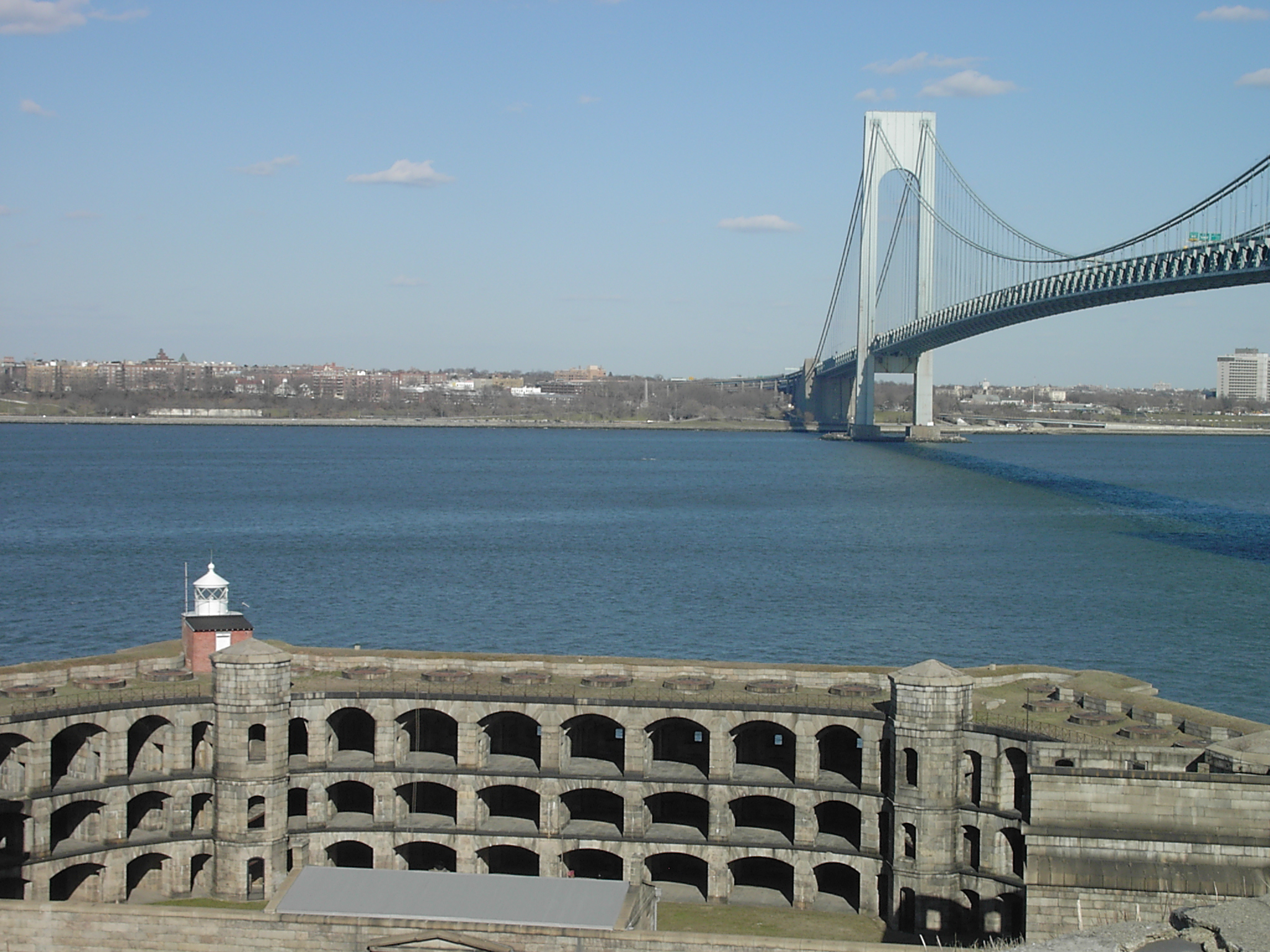 Fort Wadsworth & Verrazano-Narrows Bridge